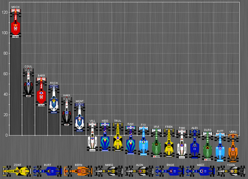 chart of final standings of 2001 Formula One season